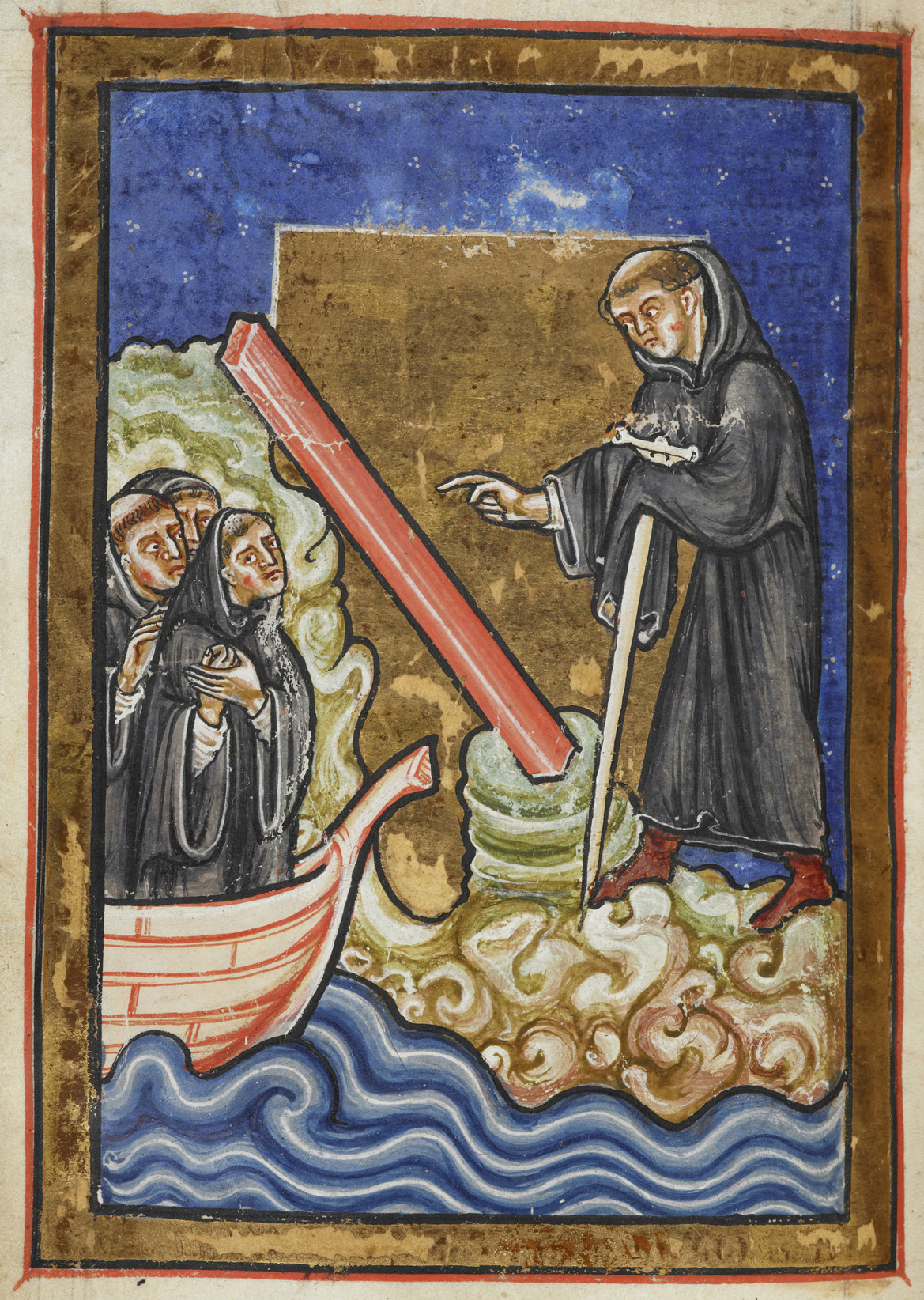 Chaper 21. Cuthbert discovers the piece of timber washed up with the tide, that was to be used a roof beam